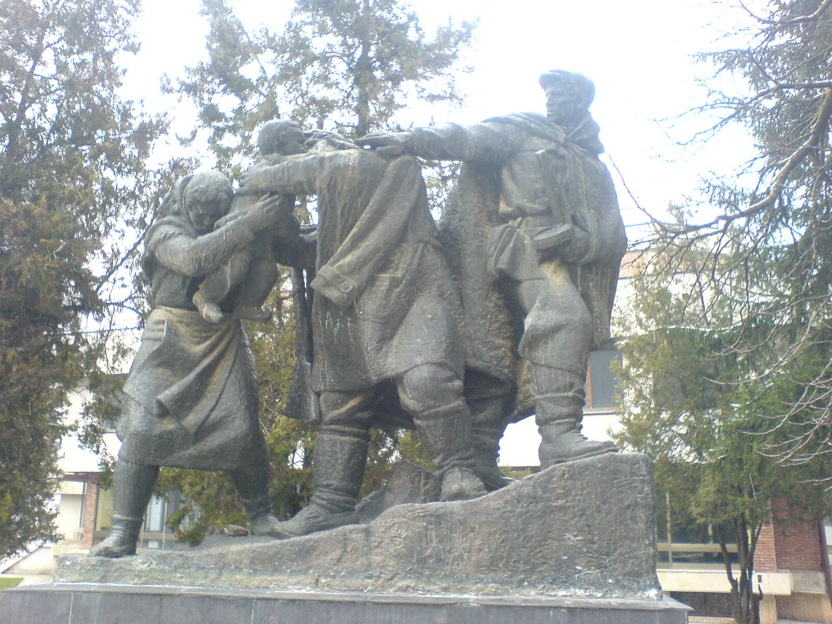 Memorial in city of Trun, Bulgaria.